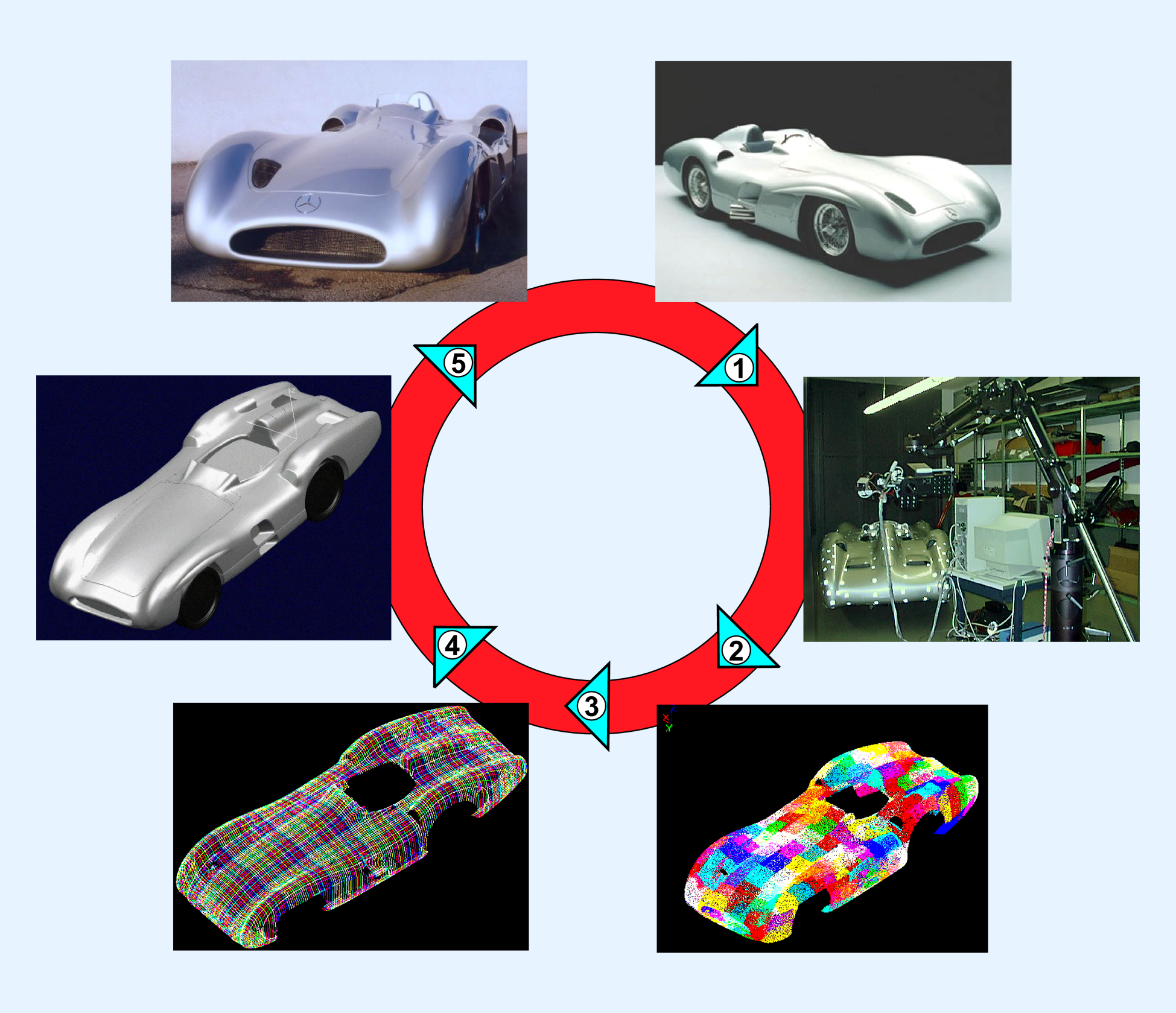 The reverse engineering process shown at a Silver-Arrow Racing car from 1954. The original car (1) was scanned in 14 hours and a point cloud (2) with 98 million points was created. The point cloud was then cross section with axes parallel sections with 2 centimeter distance to reduce the number of points (3). On the cross sections a CAD-modell (4) was designed in 80 working hours. Based on the CAD-modell a new car (5) was build in original scale.